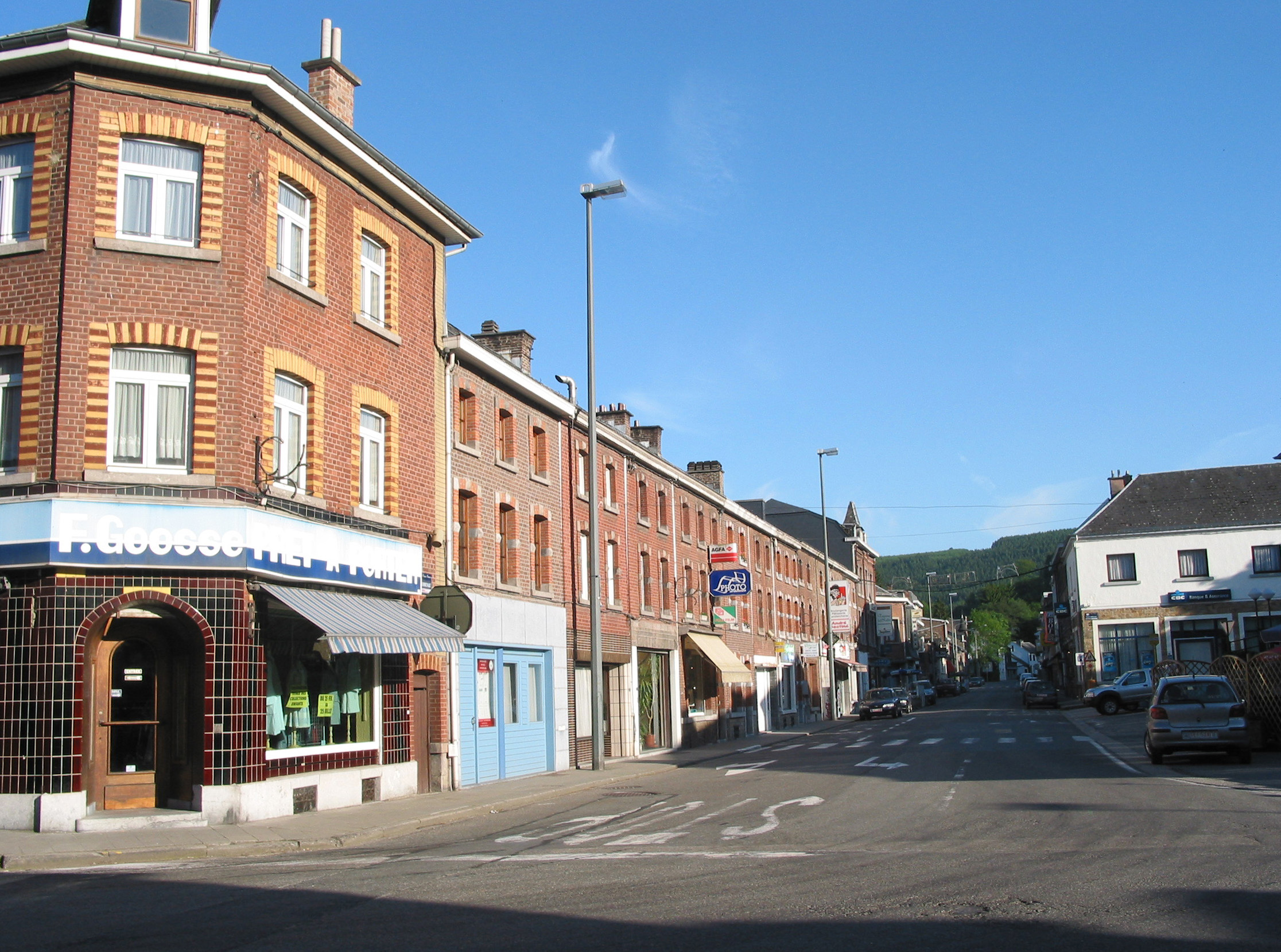 Trois-Ponts (Belgium), Salm avenue